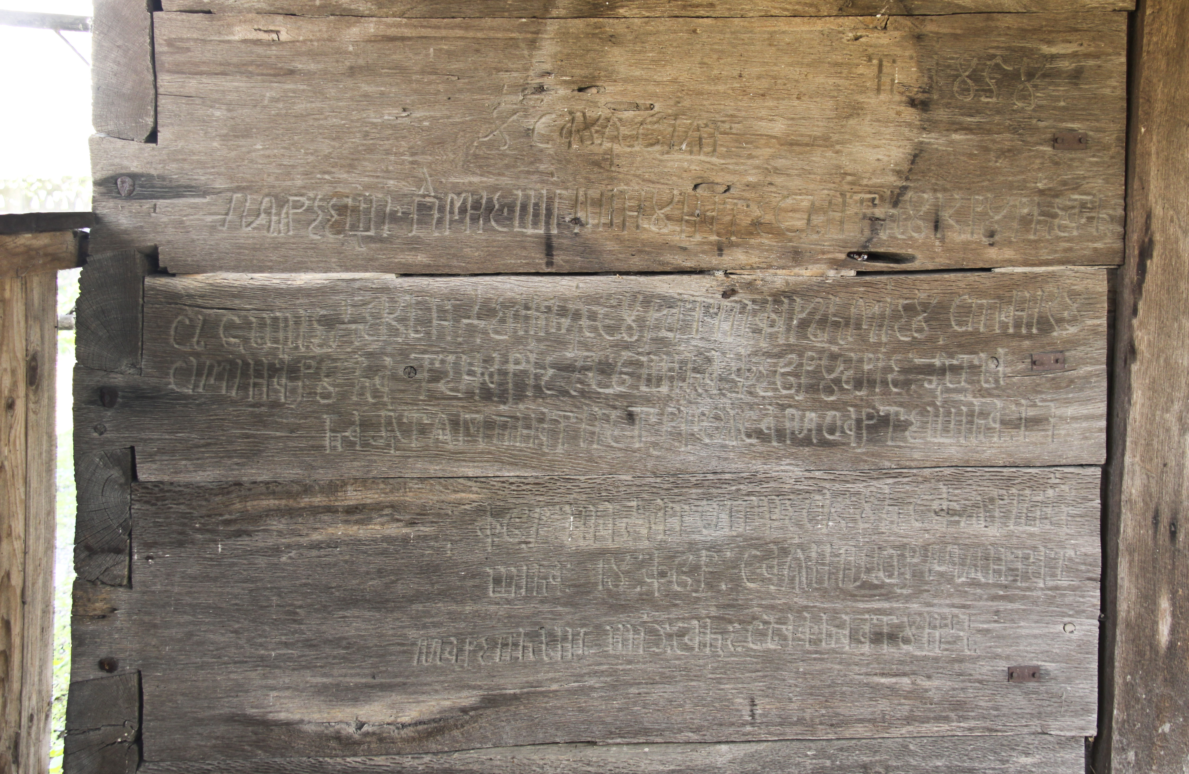 Teleormanu, Teleorman county, Romania: the wooden church.